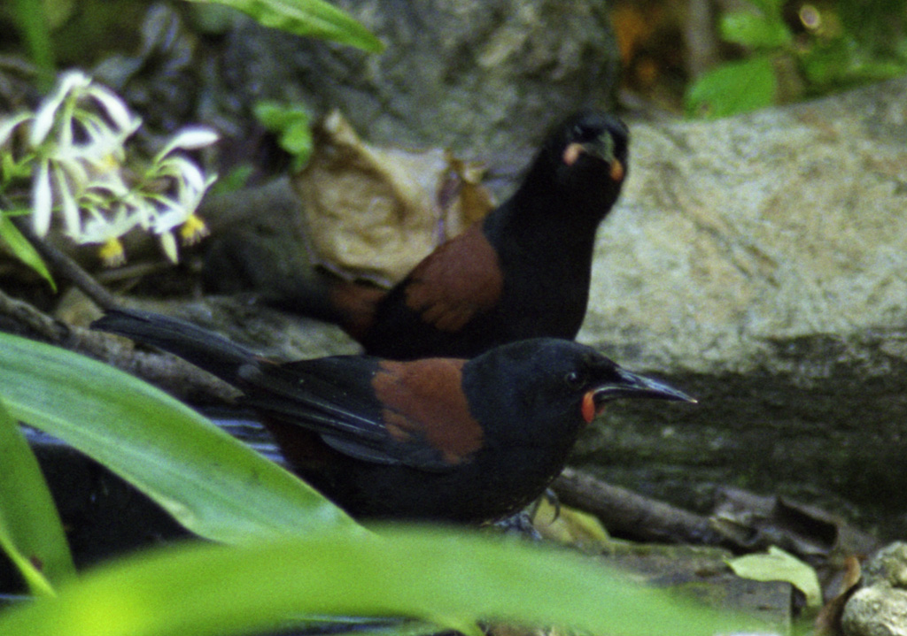 Philesturnus carunculatus carunculatus (South Island Saddleback). Motuara Is, Marlborough, Aotearoa. Pentax K1000